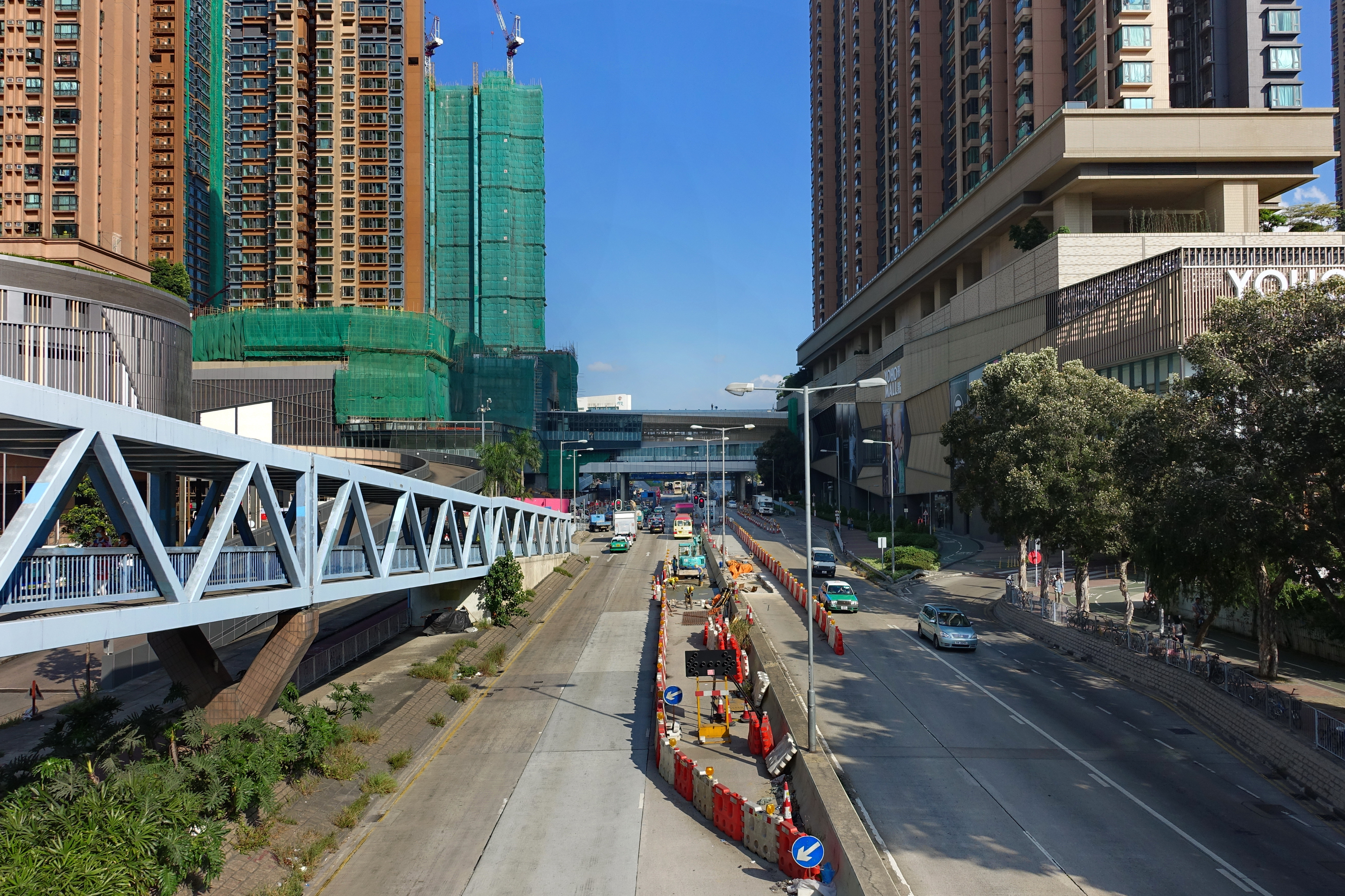 Castle Peak Road, Yuen Long Section, near YOHO Midtown, Yuen Long, New Territories, Hong Kong.